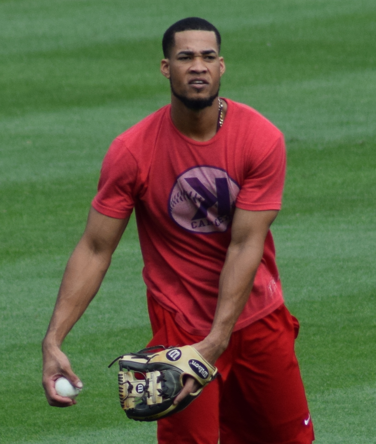 Pedro Florimon of the Philadelphia Phillies warms up before a game at Citizens Bank Park in 2018